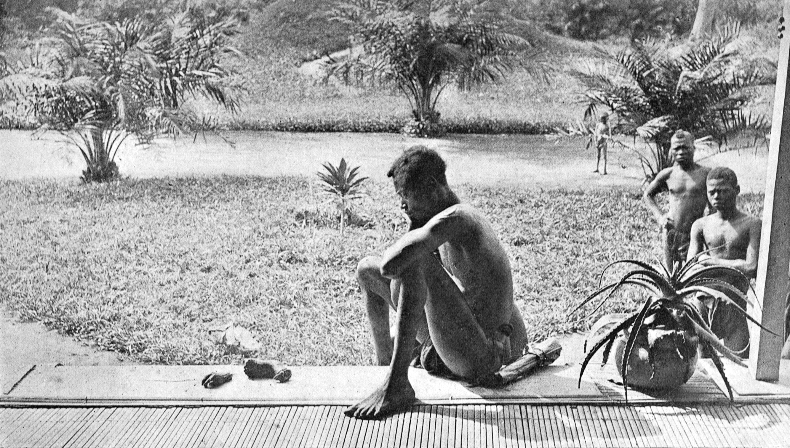 Original caption: "Nsala of Wala in the Nsongo District (ABIR Concession)". The original description says that Nsala sits "with the hand and foot of his little girl of five years old -- all that remained of a cannibal feast by armed rubber sentries. The sentries killed his wife, his daughter, and a son, cutting up the bodies, cooking and eating them." The "rubber sentries" refer to the ABIR militia. The image has been published on several websites with the caption "A father stares at the hands of his five year-old daughter, which were severed as a punishment for having harvested too little caoutchouc/rubber".